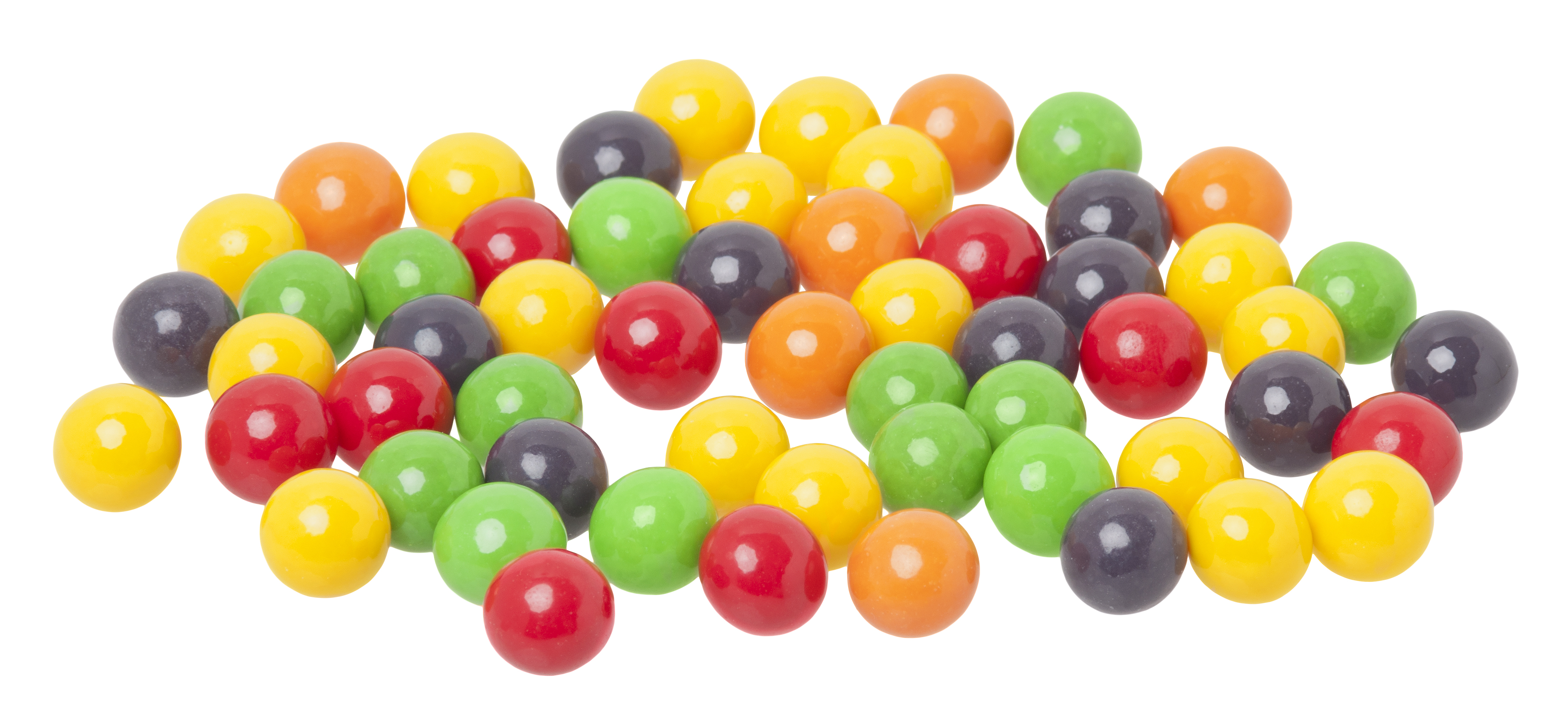 Everlasting Gobstoppers candy made by Willy Wonka.